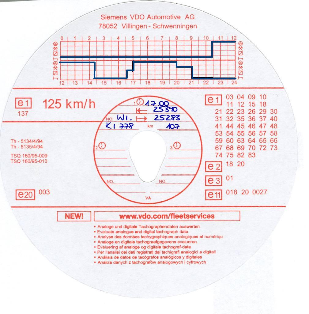 rear page of a tachograph disk